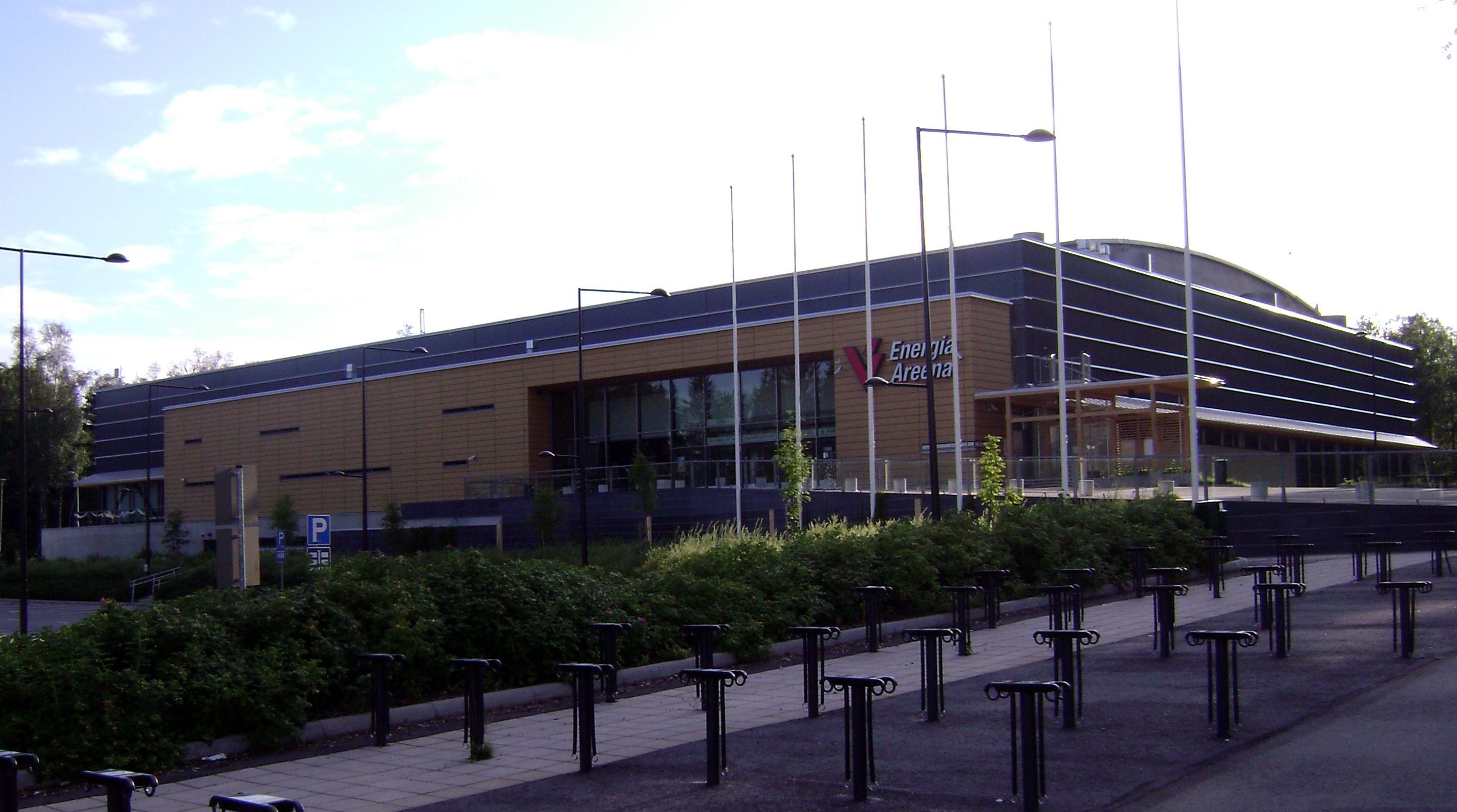 Energia Areena in Myyrmäki, Vantaa, Finland.